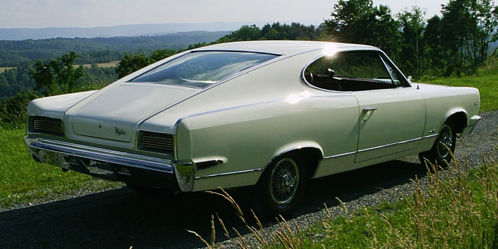 1967 AMC Marlin, built by American Motors Corporation. A full-sized, two-door hardtop (no "B-pillar") fastback - finished in white with red interior.